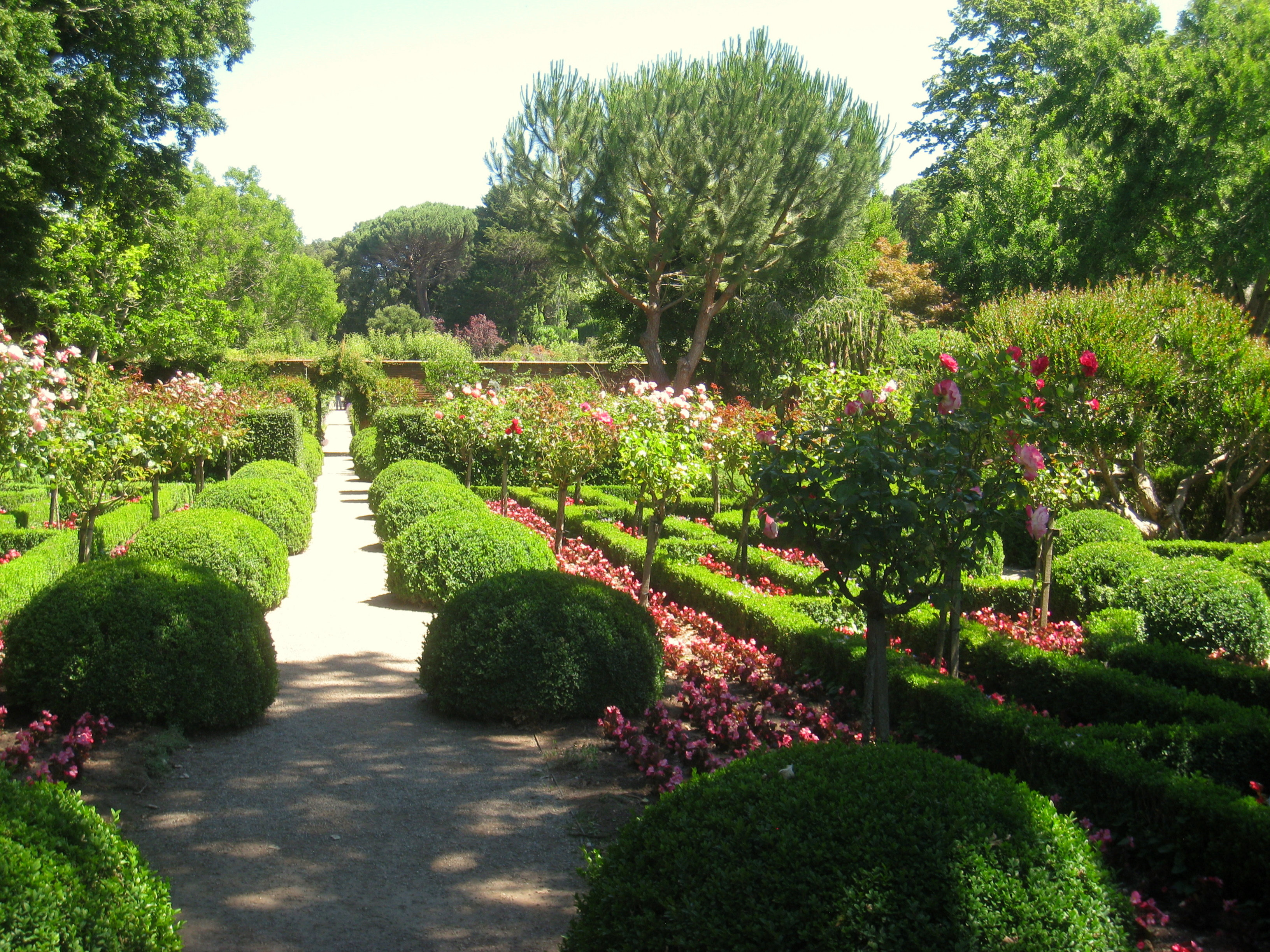 Filoli gardens, Woodside, California, USA.